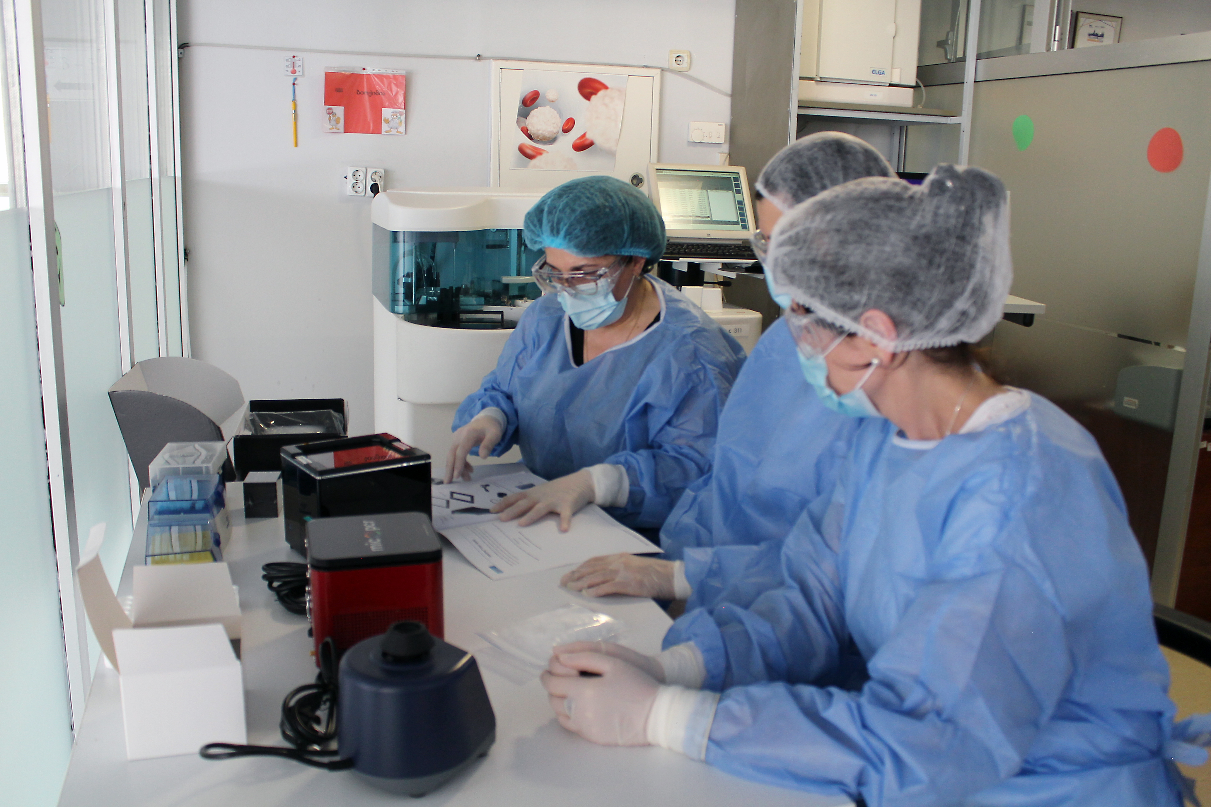 Assistance to Georgia for diagnostics of COVID-19 Central Laboratory at the Academician Nikoloz Kipshidze University Clinic, Tbilisi, Georgia, receives the equipment of the PCR laboratory for COVID-19 diagnostic. Head of Central Laboratory Ekaterine Kupataze, Laboratory doctors Tamat Magradze and Irma Kheladze, phlebotomist Marina Shalamberidze are discussing new PCR technologies, as a new unit of the laboratory. Before and now laboratory fully manages sampling Nasopharyngeal and Oropharyngeal specimens. "Now they are in the same process of preparing the PCR laboratory for diagnostics of COVID-19". 10 June 2020 The International Atomic Energy Agency (IAEA) is dispatching equipment to countries around the world to enable them to use a nuclear-derived technique to rapidly detect the coronavirus that causes COVID-19. This emergency assistance is part of the IAEA's response to requests for support from Member States in controlling an increasing number of infections worldwide. Photo Credit: Natalia Khurtsidze, PR Manager of the Clinic